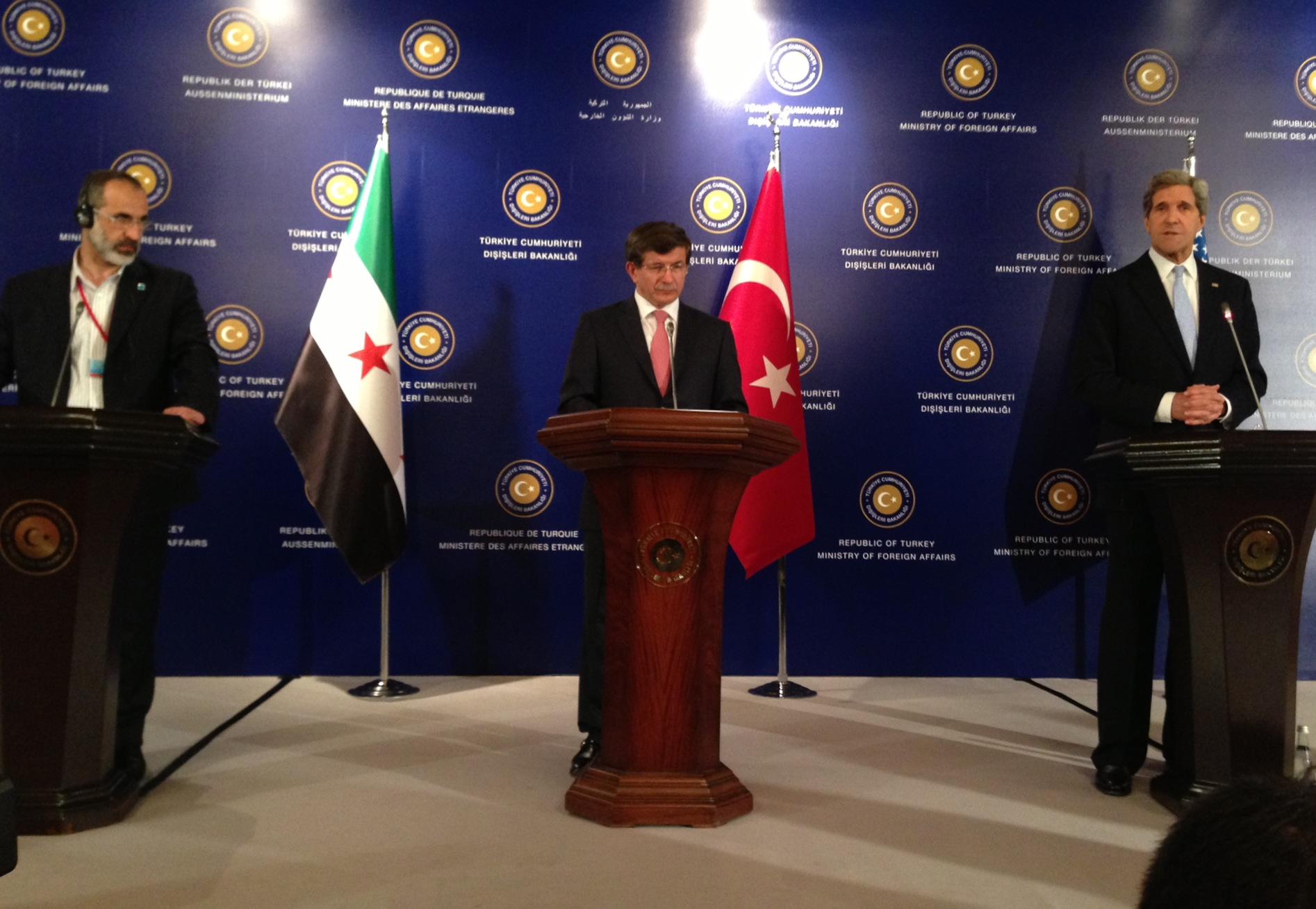 U.S. Secretary of State John Kerry delivers remarks with Turkish Foreign Minister Ahmet Davutoglu and Syrian Opposition Council Chairman Moaz al-Khatib in Istanbul, Turkey on April 20, 2013. [State Department photo/ Public Domain]